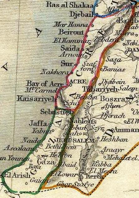 Turkey In Asia. The Illustrations by H. Warren & Engraved by J.B. Allen. The Map Drawn & Engraved by J. Rapkin.